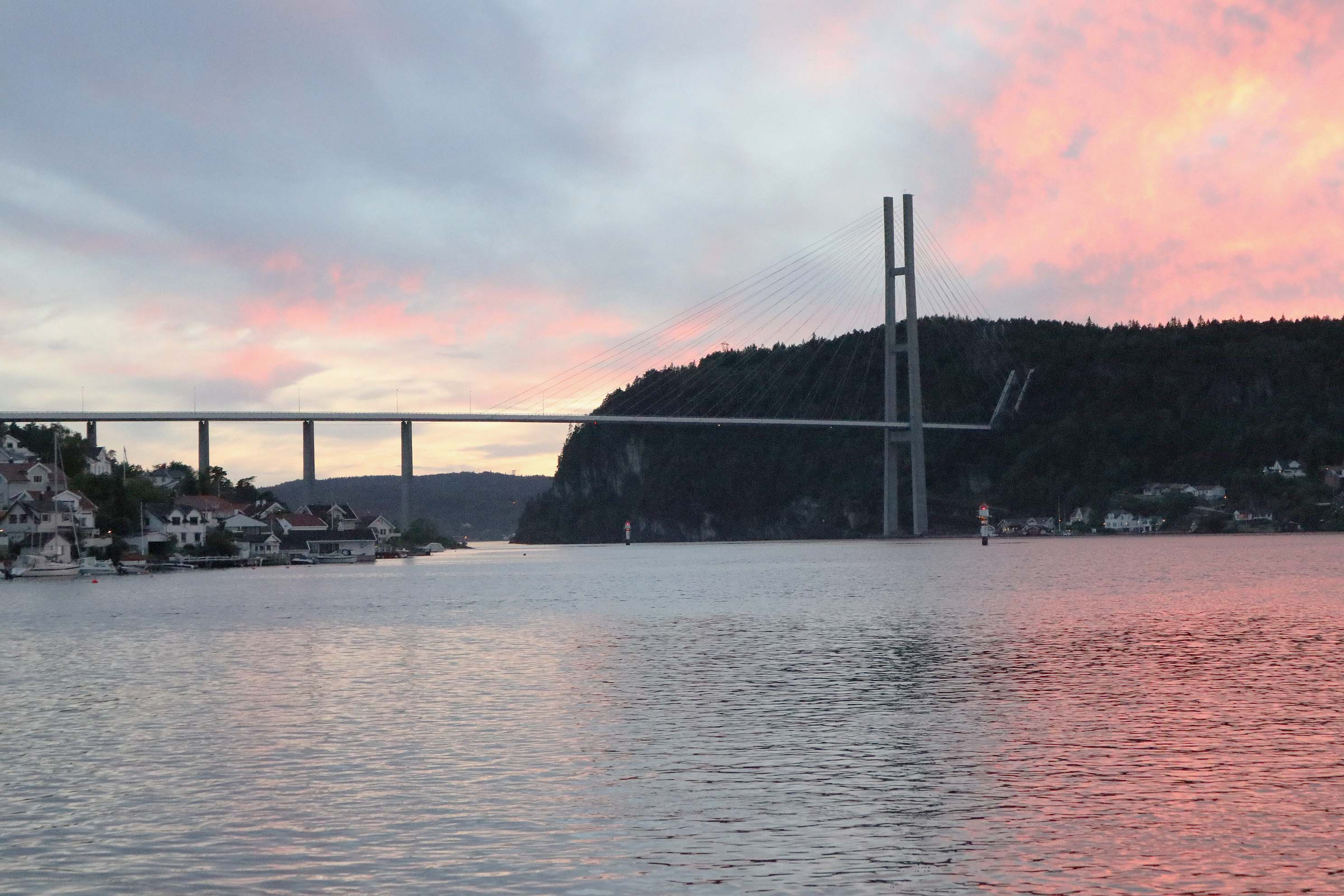 Bridge over Frierfjorden, Norway